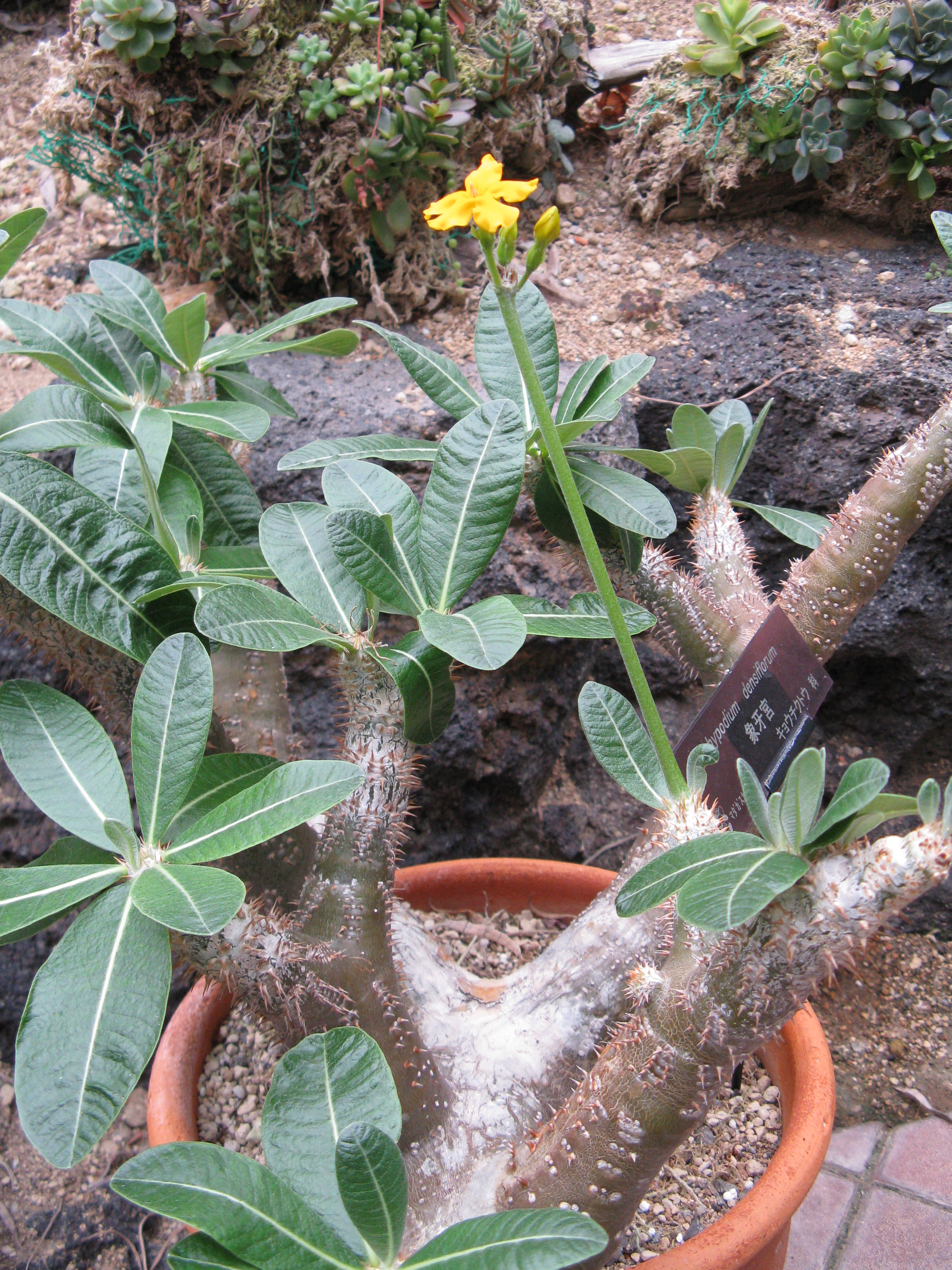 Scientific name Pachypodium densiflorum Place:Osaka Prefectural Flower Garden,Osaka,Japan